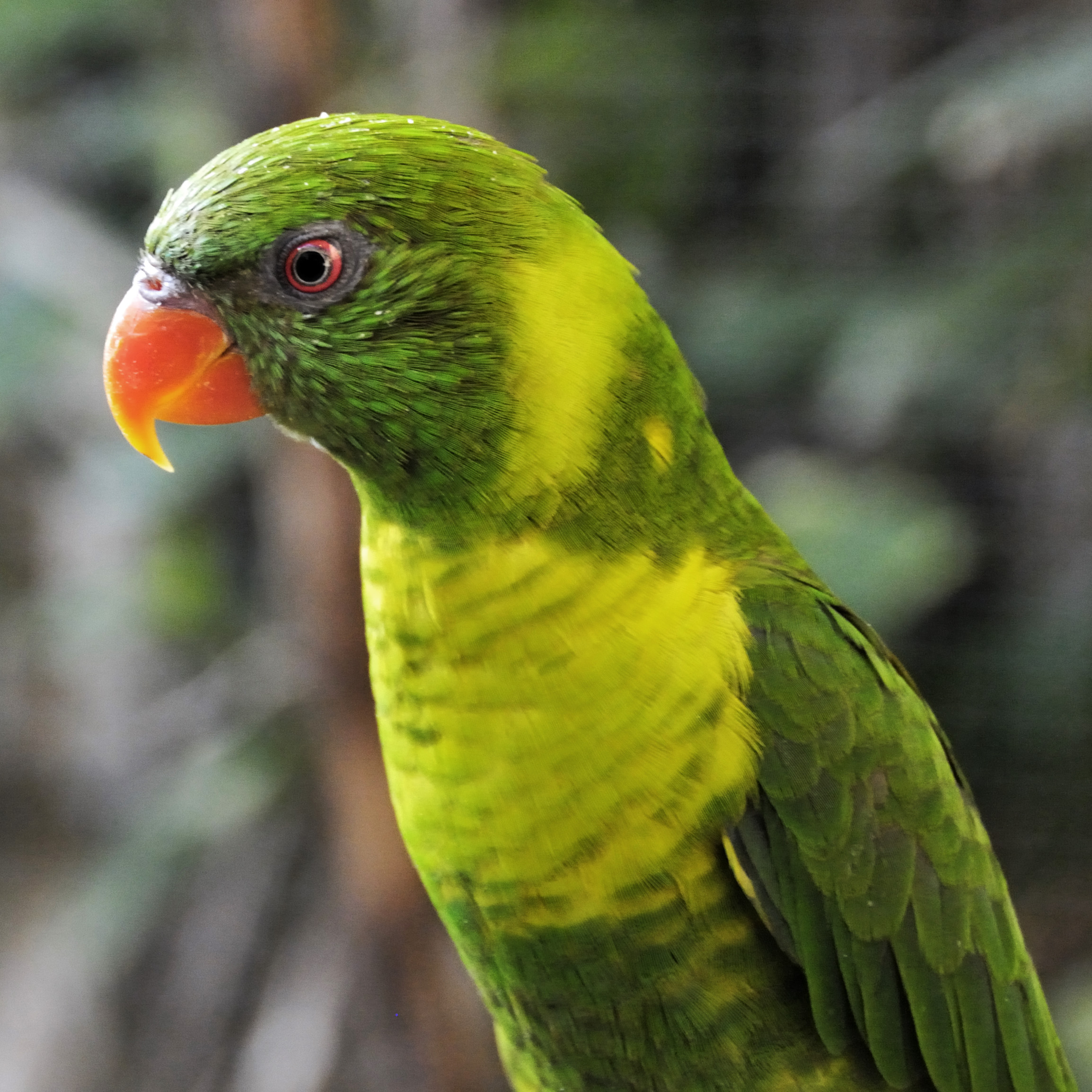 Flores Lorikeet, Trichoglossus (haematodus) weberi, at New Port Aquarium, Cincinnati, USA.